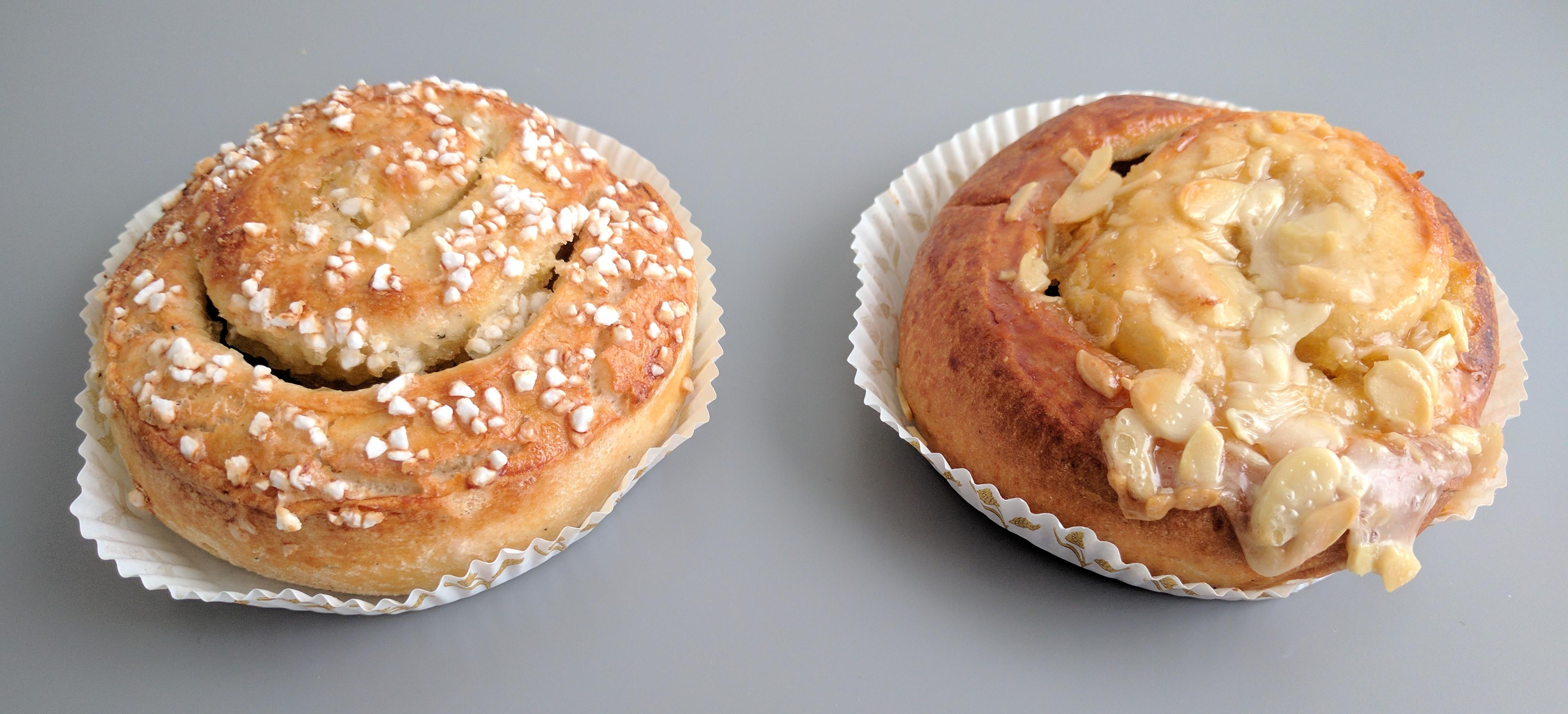 A vaniljbulle (left) and a toscabulle (right).